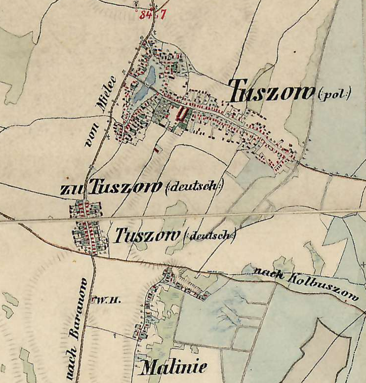 Tuszów on an austrian map from around 1855